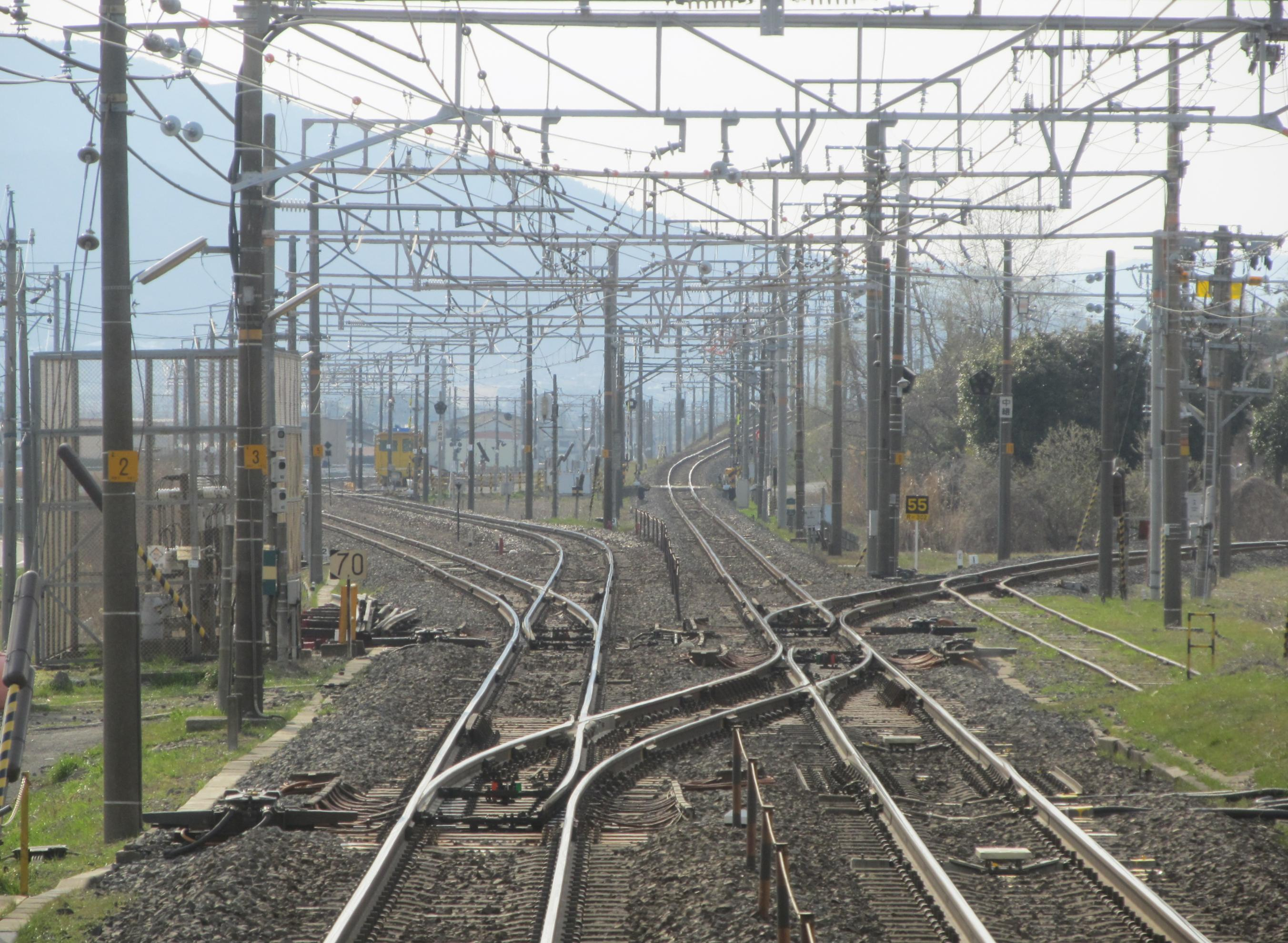 Central Japan Railway Tōkaidō Line Minami-Arao Signal Box